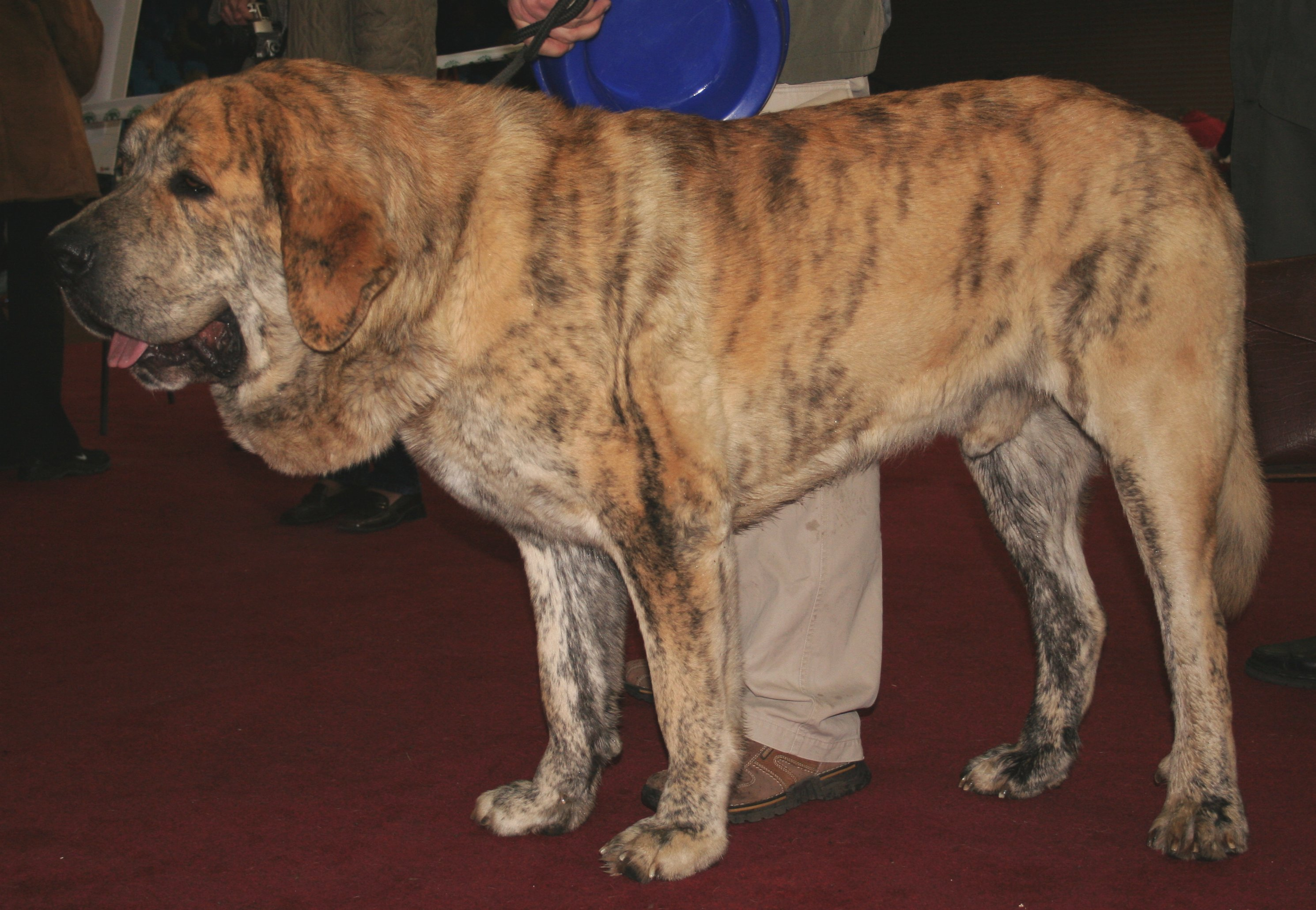 Spanish Mastiff during dogs show in Katowice, Poland